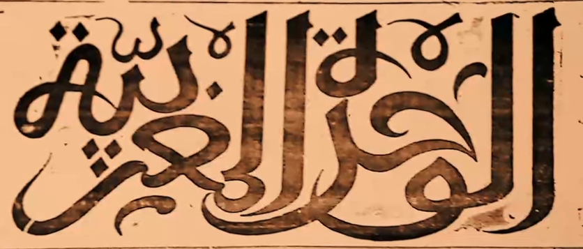 Logo of الوحدة المغربية (al-Wihdat ul-Maghribiya), a defunct Moroccan newspaper.